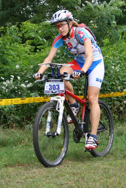 This work is free and may be used by anyone for any purpose. If you wish to use this content, you do not need to request permission as long as you follow any licensing requirements mentioned on this page.